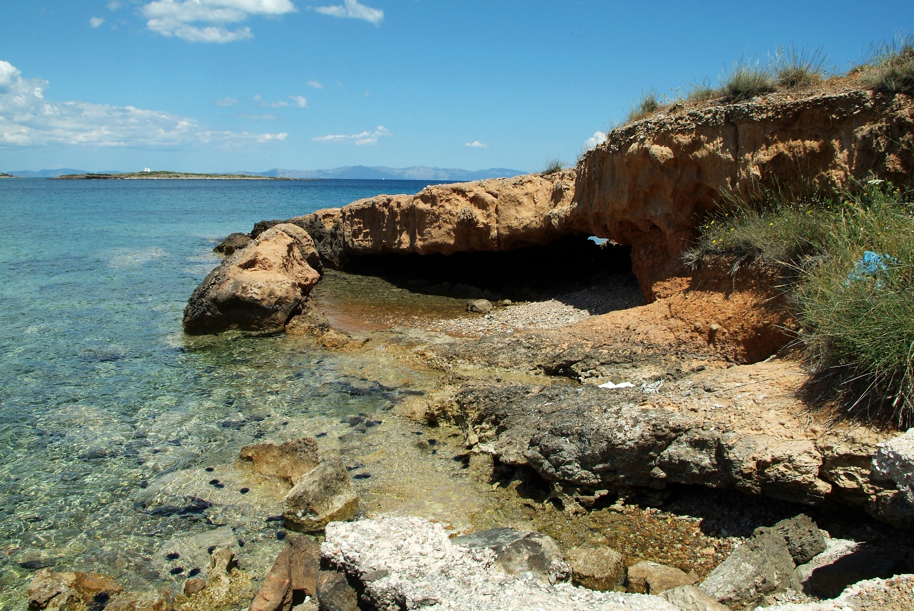 This is a photography of Natura 2000 protected area with ID GR3000004